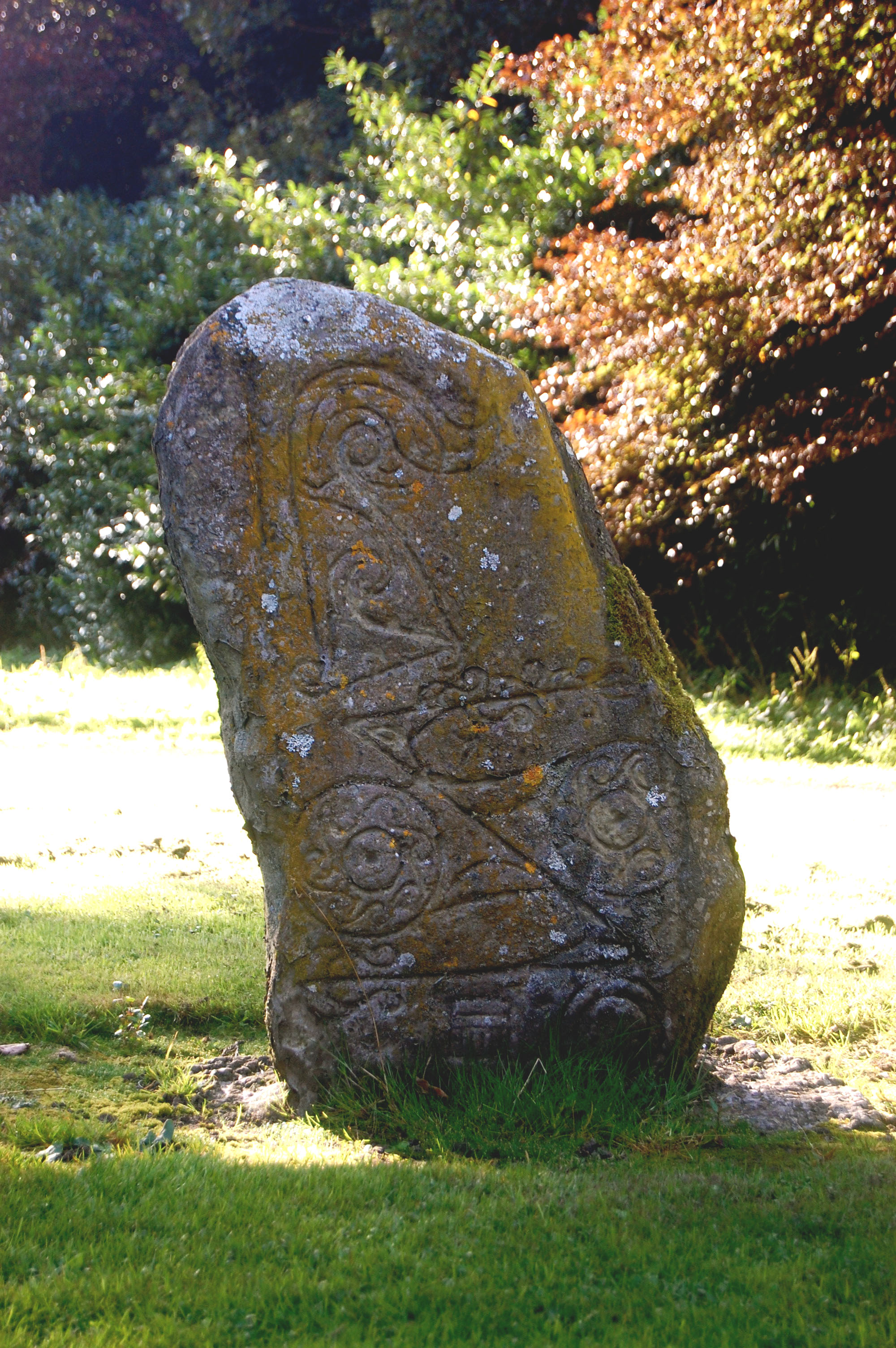 Replica of the Dunnichen stone